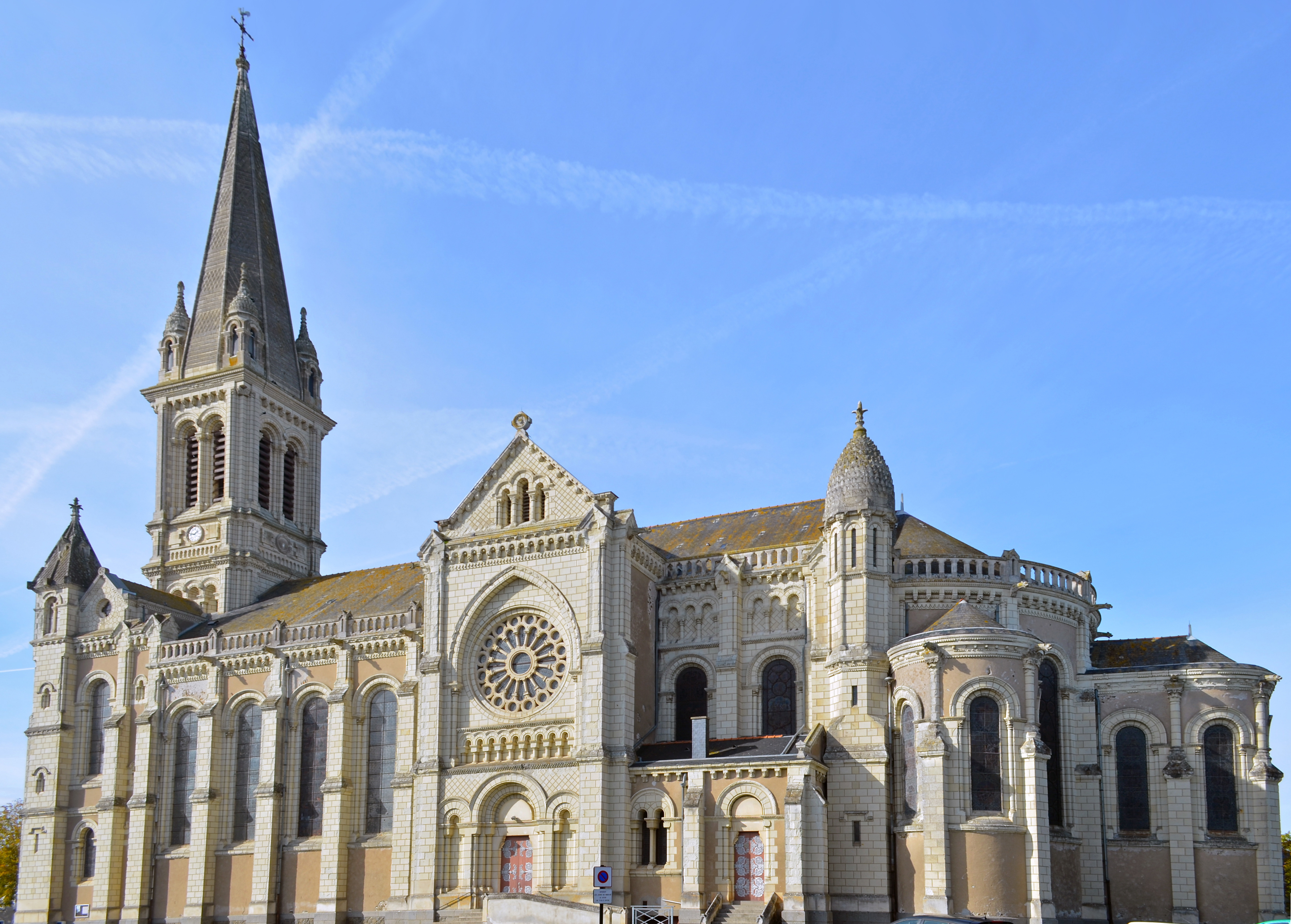 Notre-Dame la Neuve church, Chemillé, France